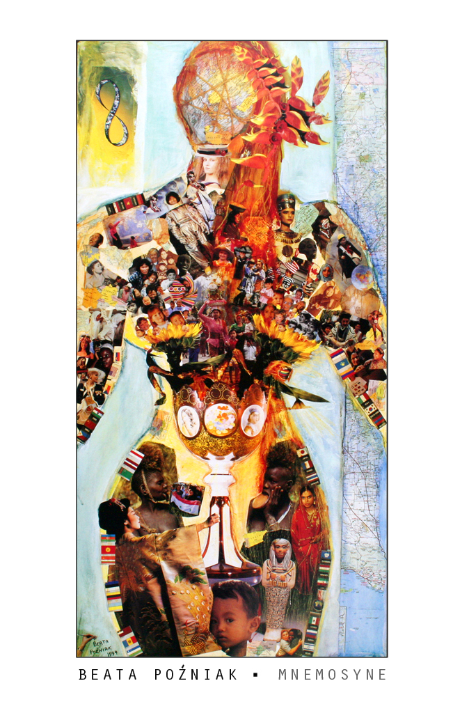 Mnemosyne